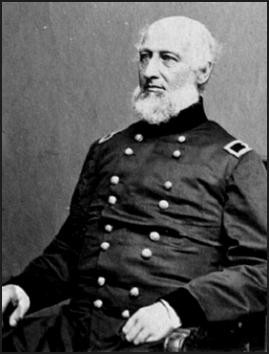 Modified from photograph on this webpage